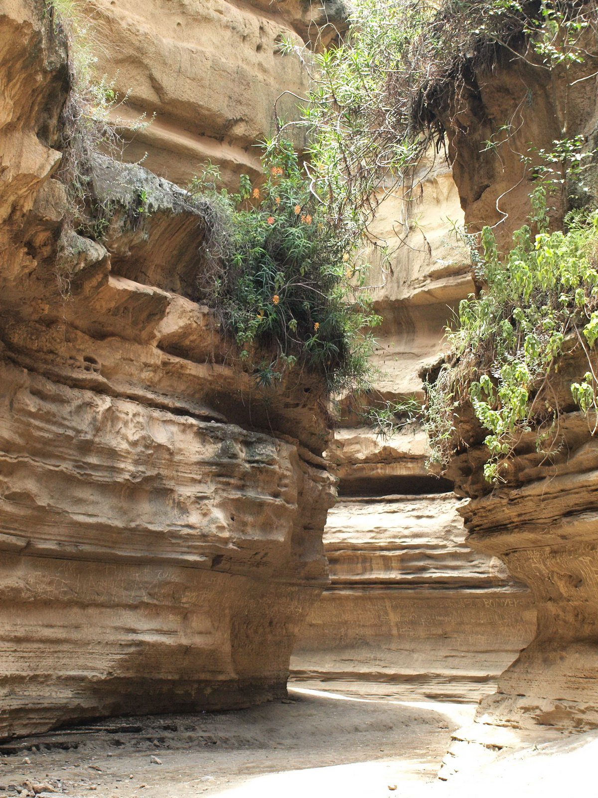 Hell's Gate National Park, Kenia